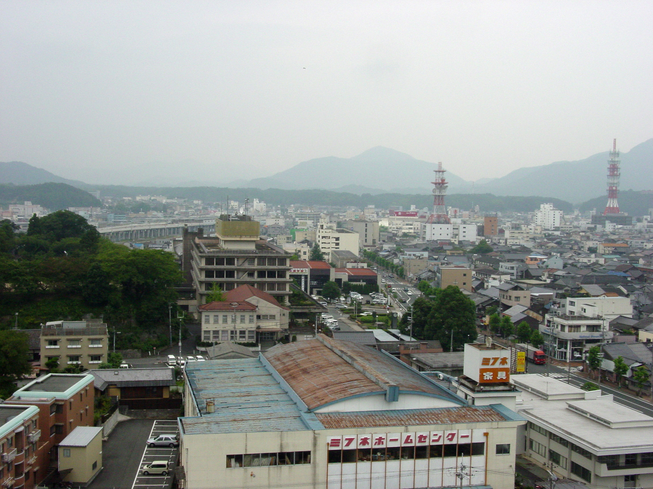 View from Fukuchiyama Castle